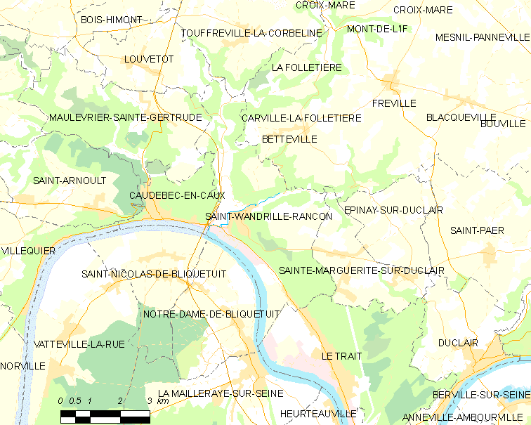 Map of French municipality Saint-Wandrille-Rançon